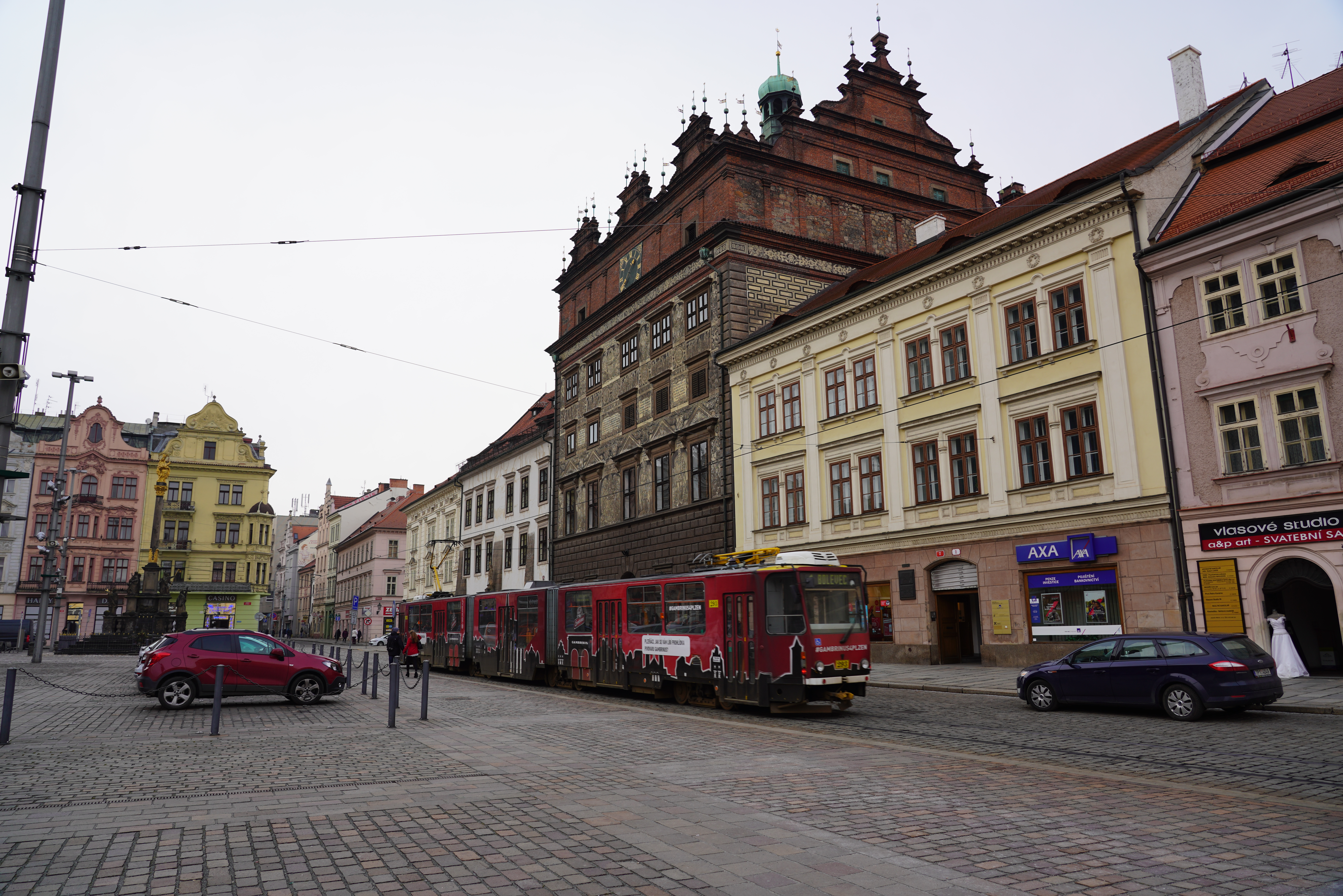 Cathedral of St. Bartholomew 聖巴爾多祿茂主教座堂 Katedrála svatého Bartoloměje